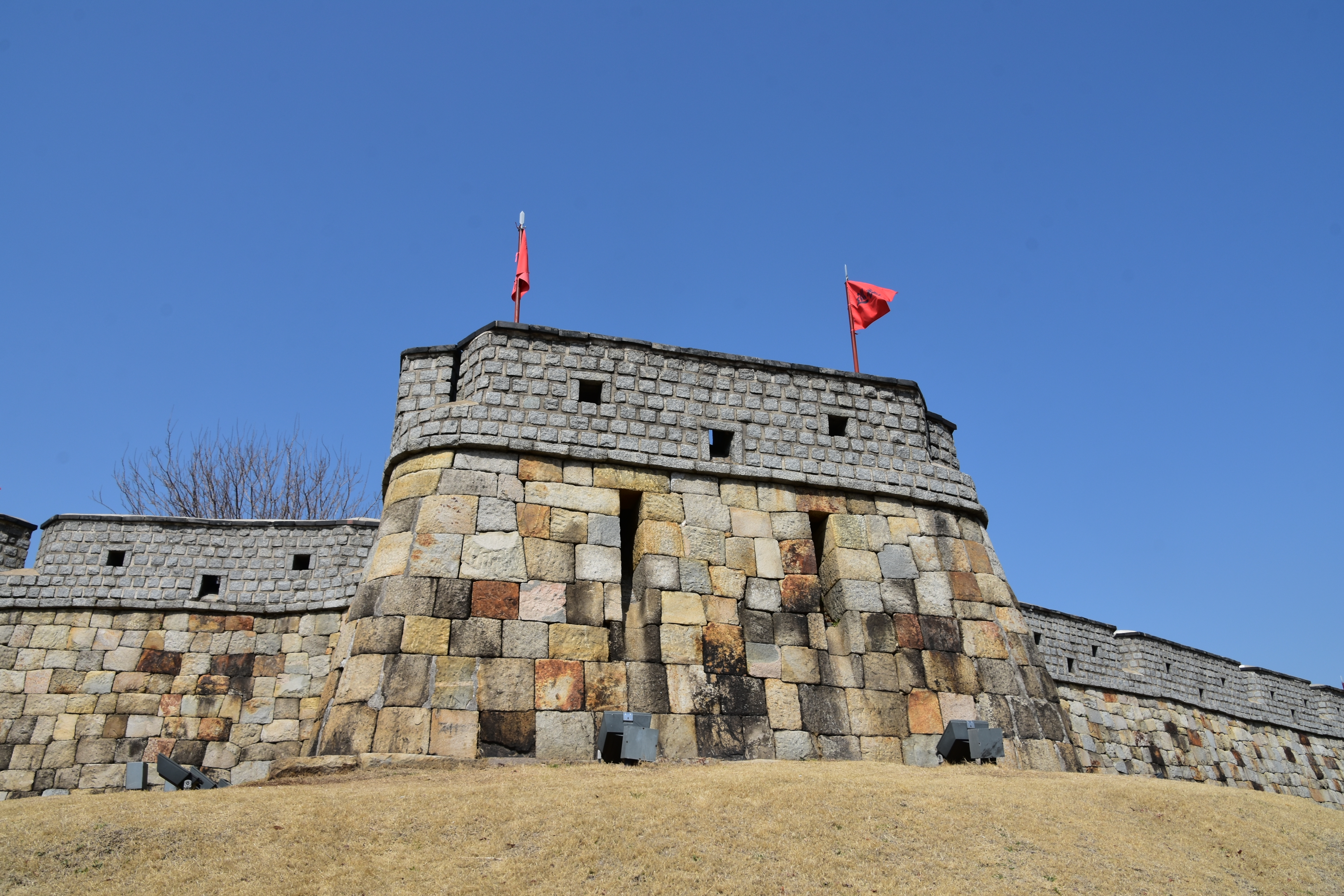 Fortifications of Suwon, late 18th century (8)